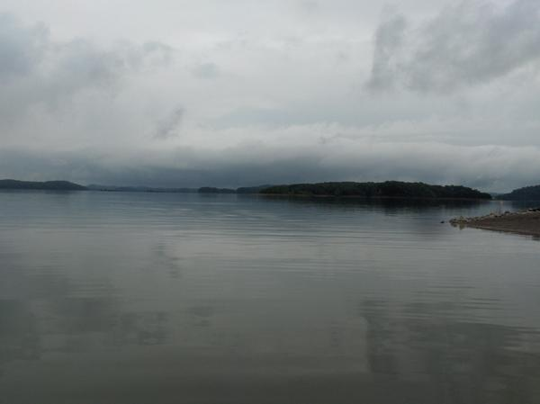 Douglas Lake in Sevier County, TN on a stormy evening.